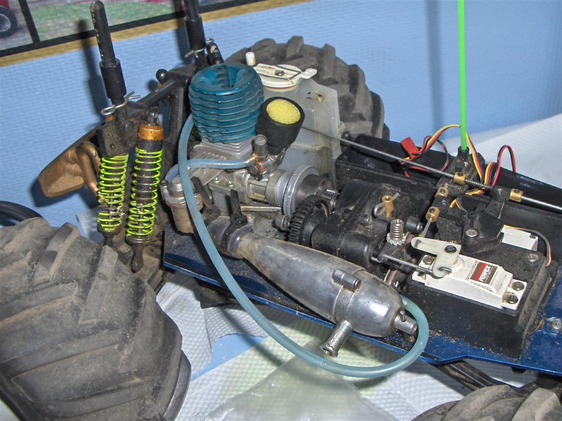 Kyosho Mega Force RC car with no hood, engine exposed.